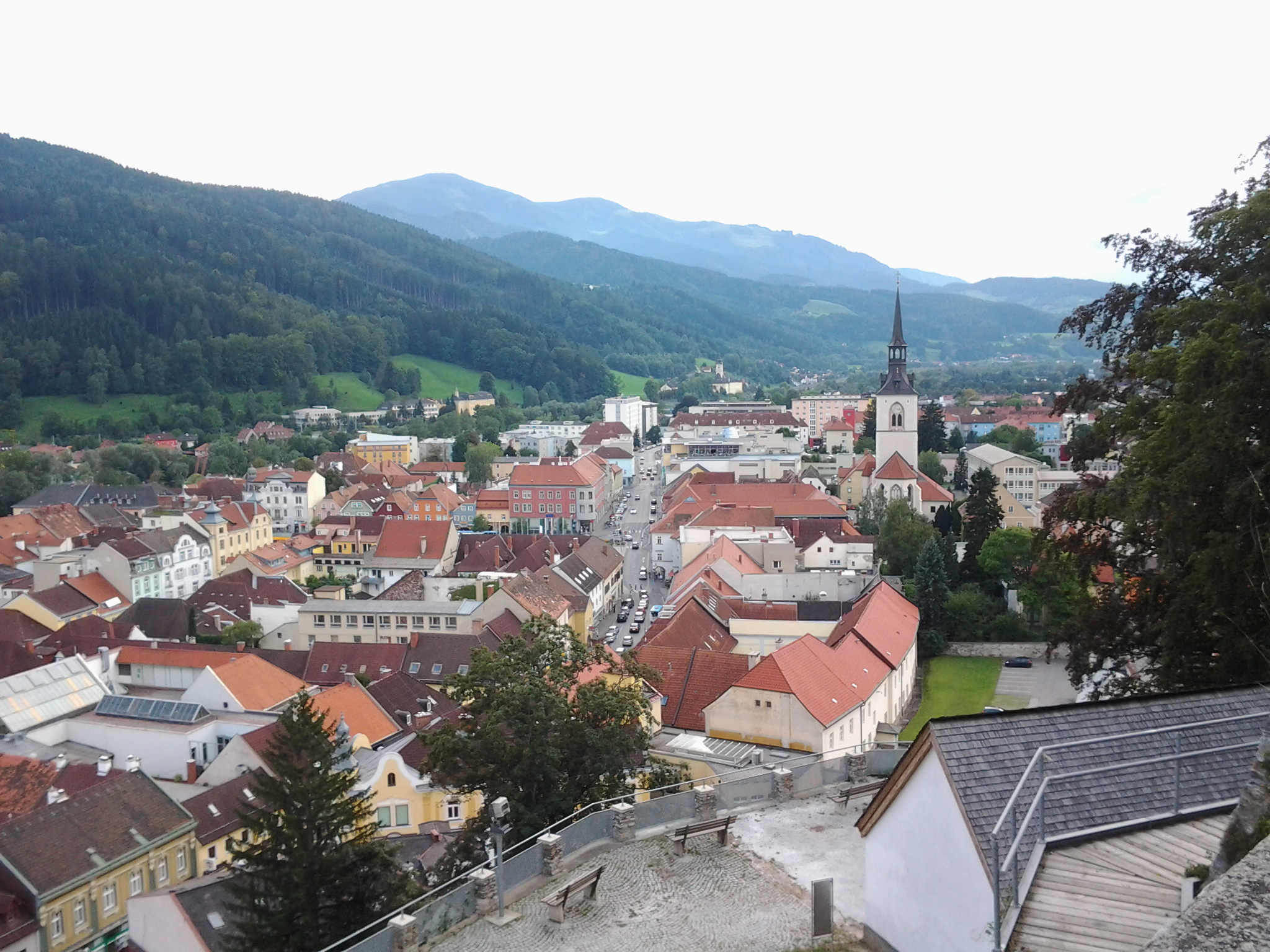 Bruck an der Mur, view to the west